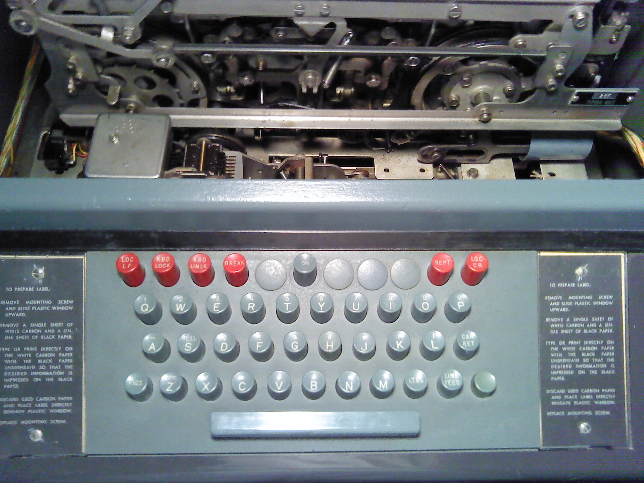 The keyboard has special function red keys that control local functions such as local line feed, keyboard lock and unlock, break, repeat and local carriage return. The FIGS (figures) and LTRS (letters) keys are in the bottom row of green keys, just above the space bar.